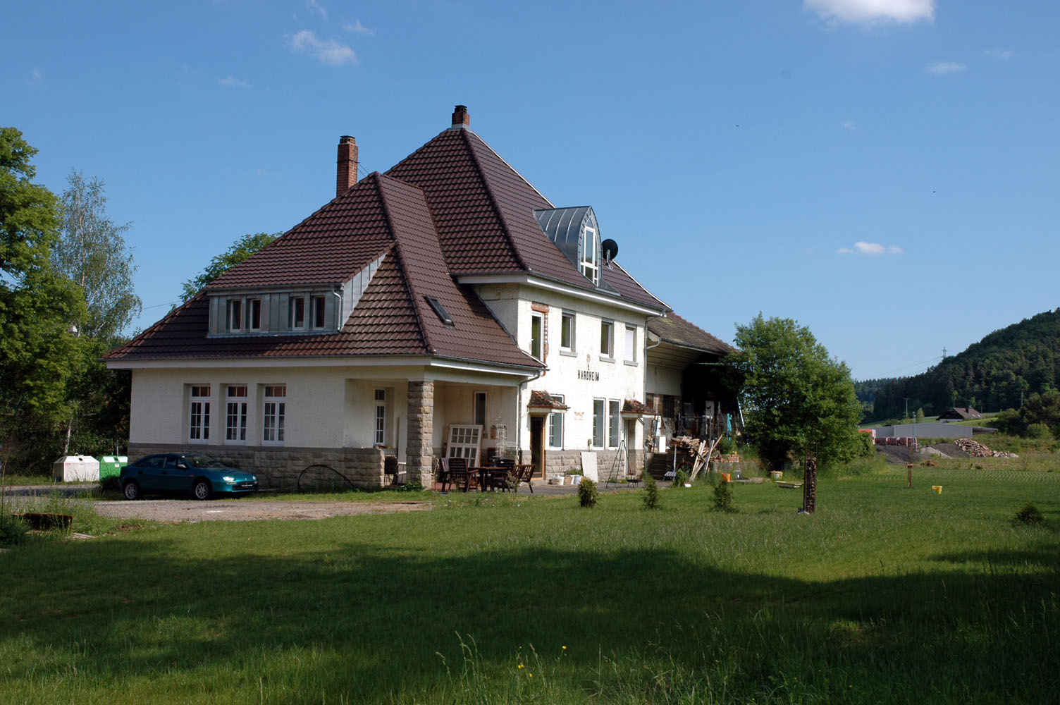 station building of former train station of Hardheim.